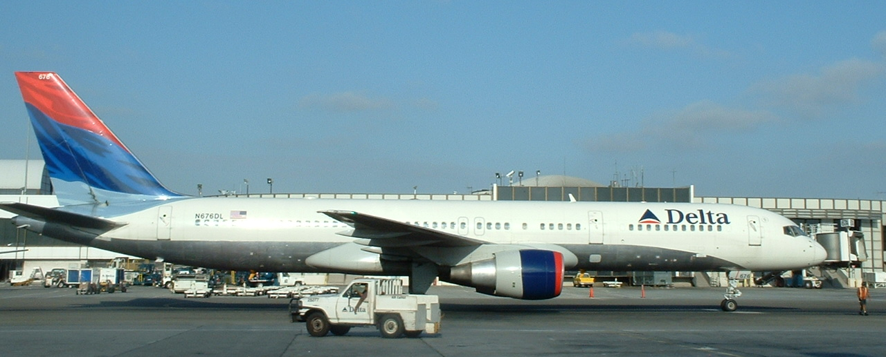 Delta Airlines Boeing 757-232 at Los Angeles International Airport.